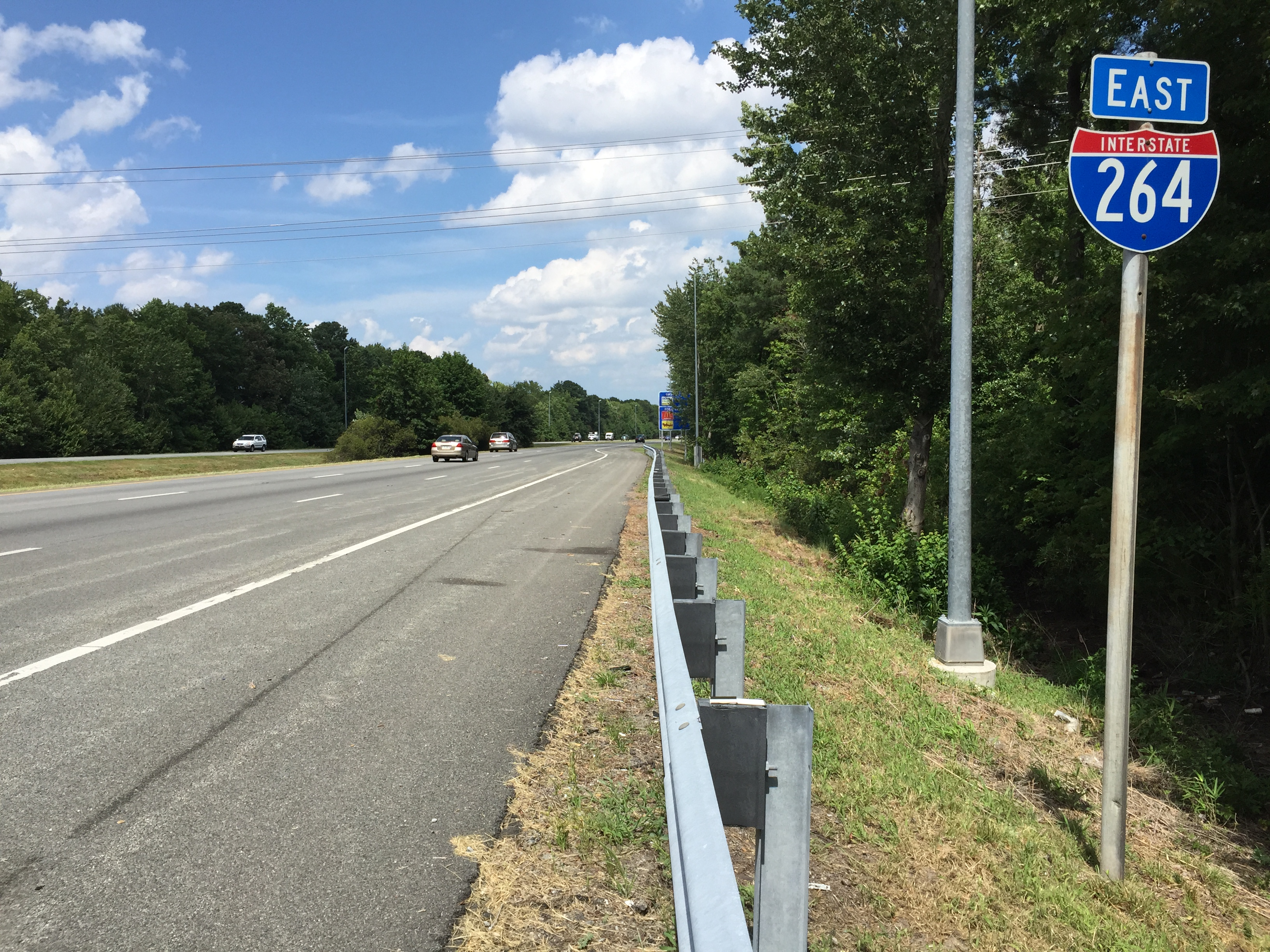 View east along Interstate 264 just east of Exit 2 (Greenwood Drive) in Portsmouth, Virginia